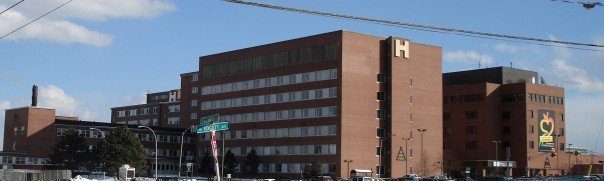 An image of The Moncton Hospital in Moncton. This image was cropped from the original using Photoshop CS2.